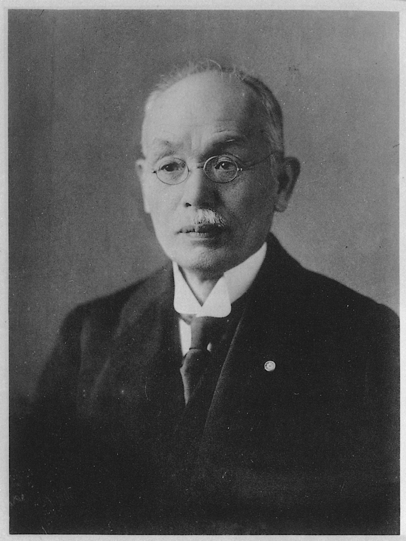 Portrait of Inoue Tetsujiro (井上哲次郎, 1856 – 1944)